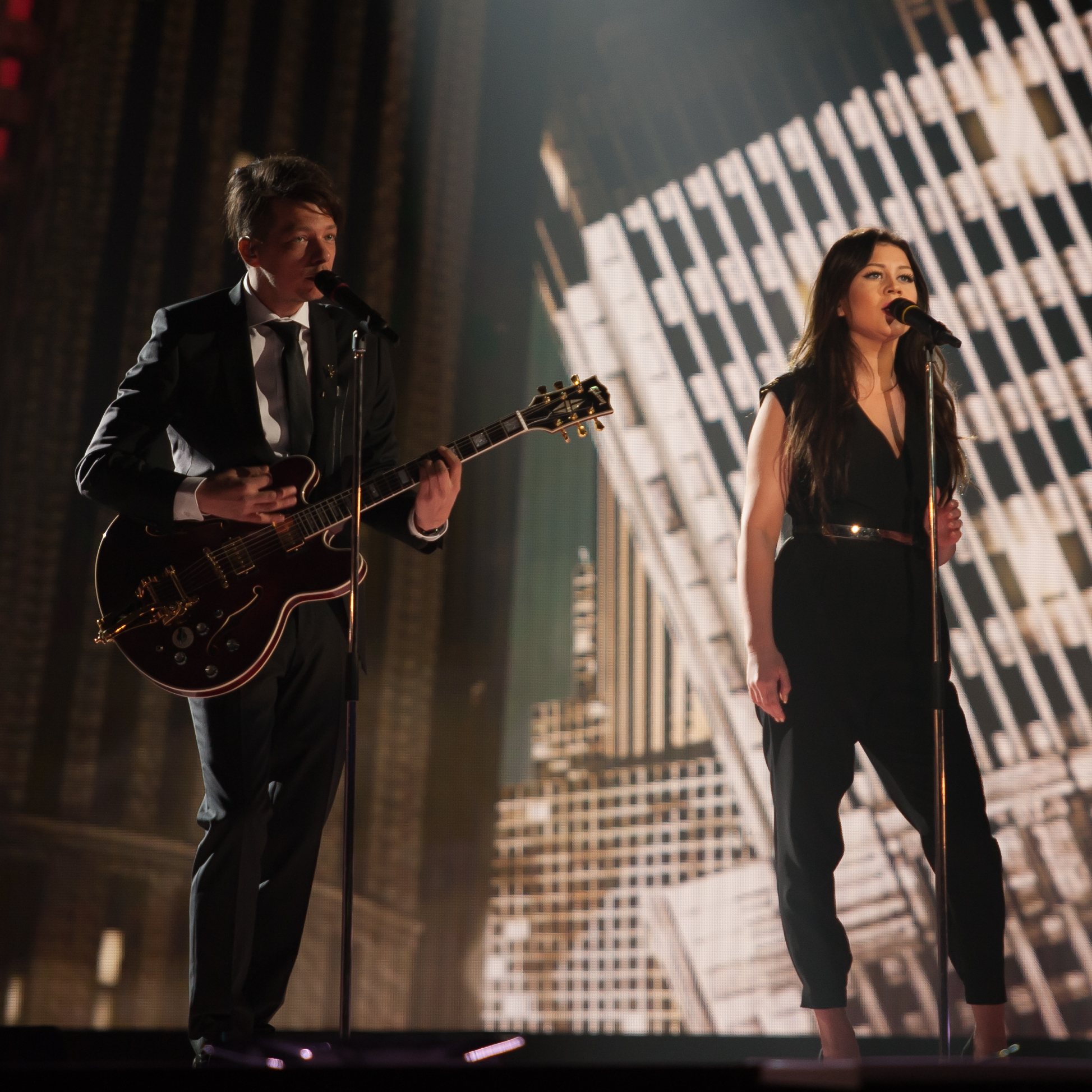 Eurovision Song Contest Vienna 2015: Elina Born & Stig Rästa